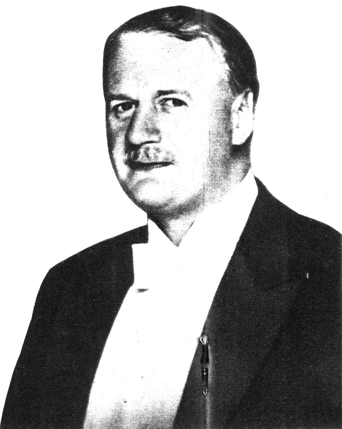 Miles Lampson, 1st Baron Killearn (1880–1964), British High Commissioner (1933–1936) then Ambassador (1936–1946) to Egypt.